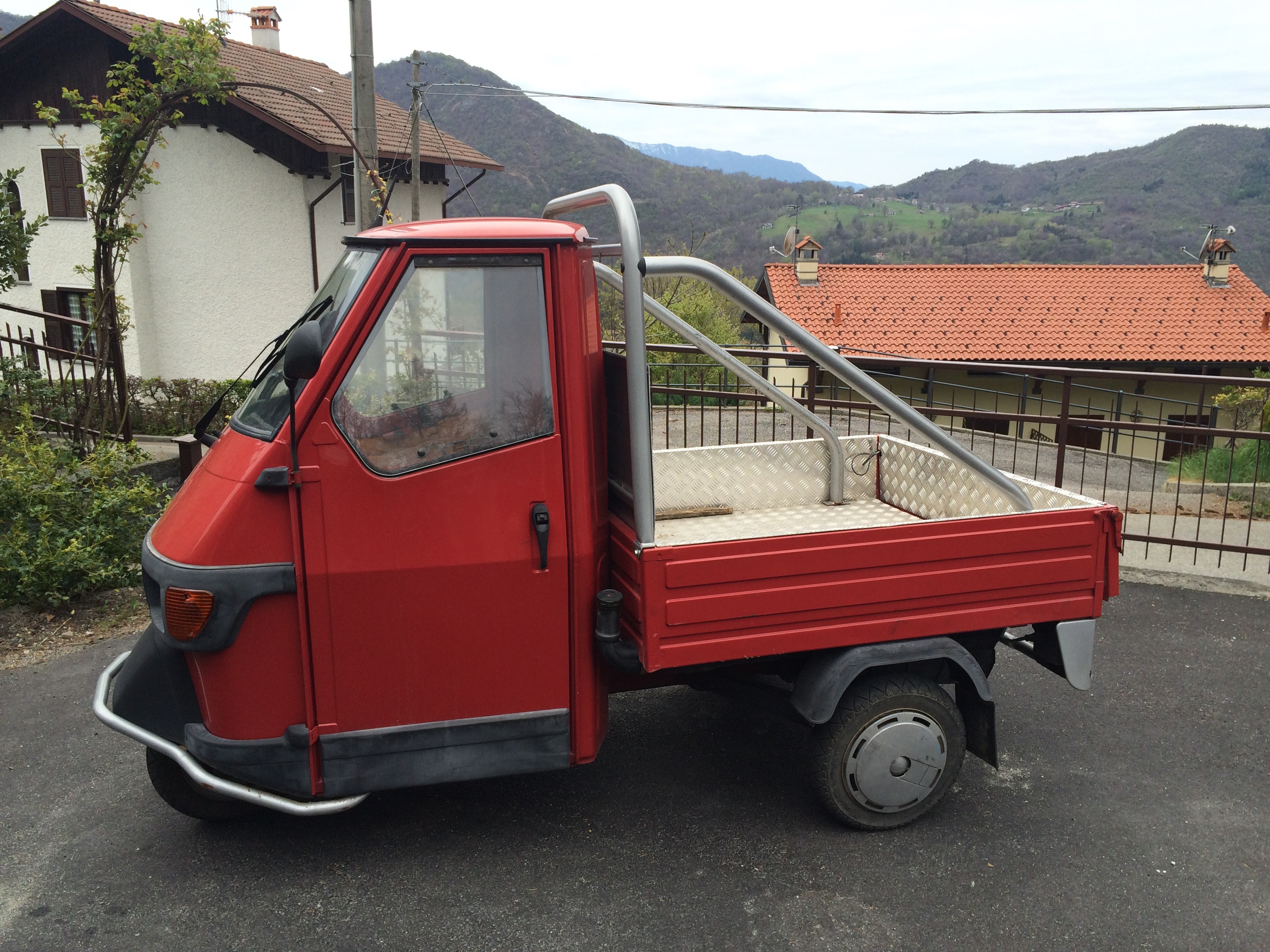 Ape Piaggio in Esino Lario